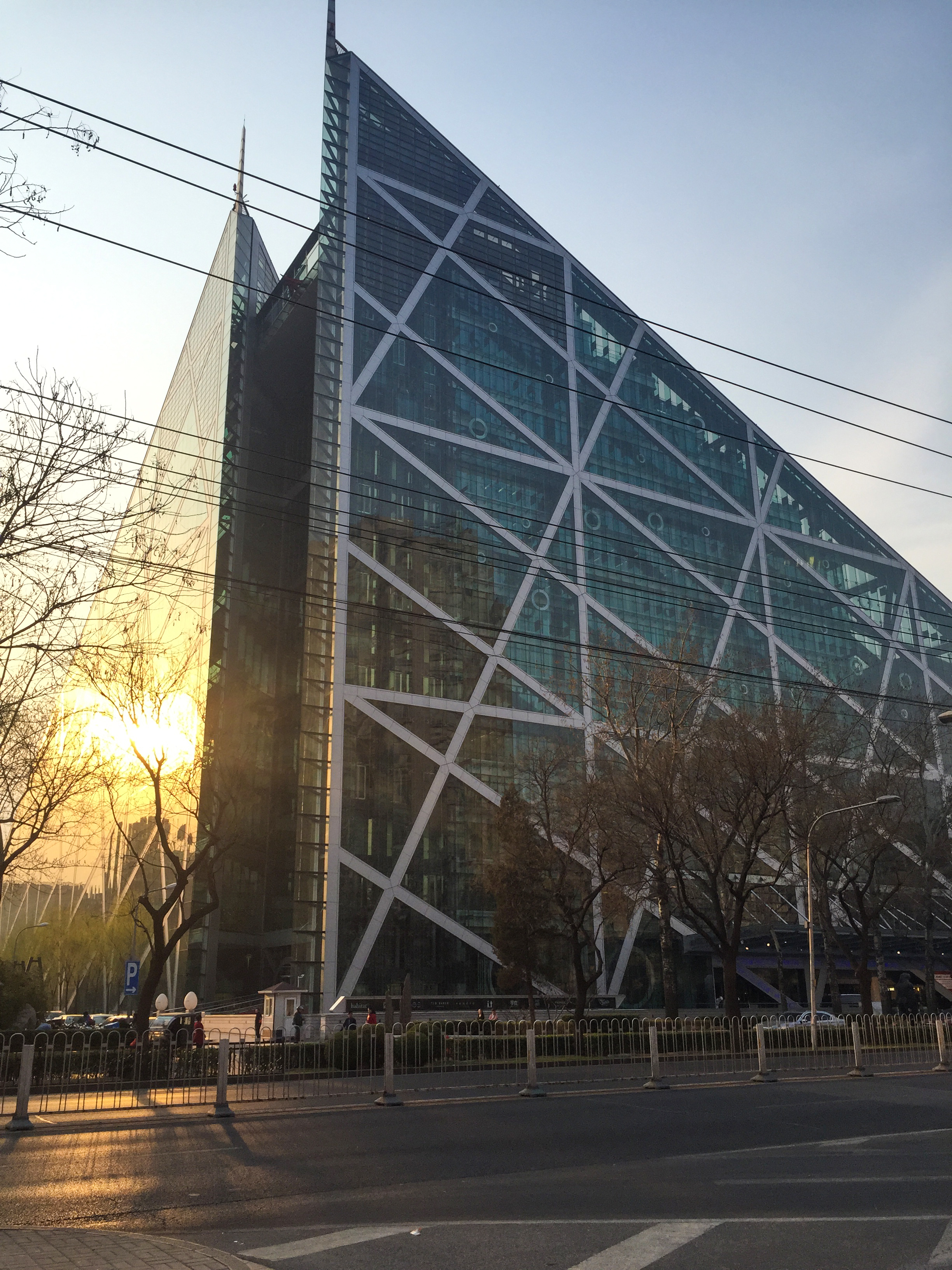 New landmark in Fangcaodi, the land of good herb (Yerba Buena).